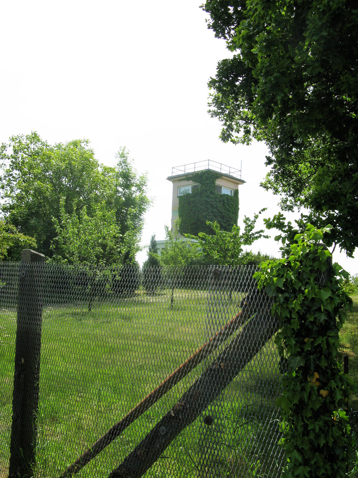 Watch tower at former inner german border in Rüterberg, district Ludwigslust-Parchim, Mecklenburg-Vorpommern, Germany